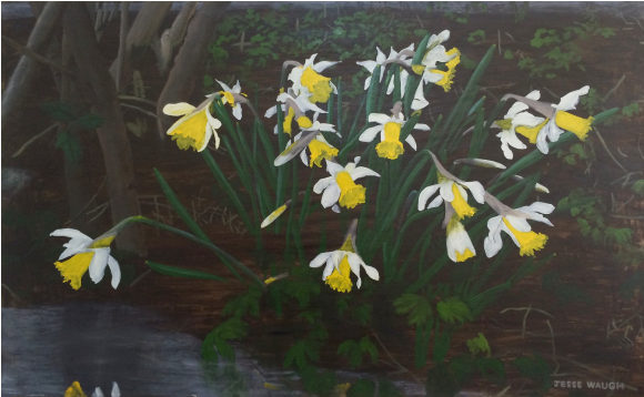 Pseudonarcissus, oil on canvas